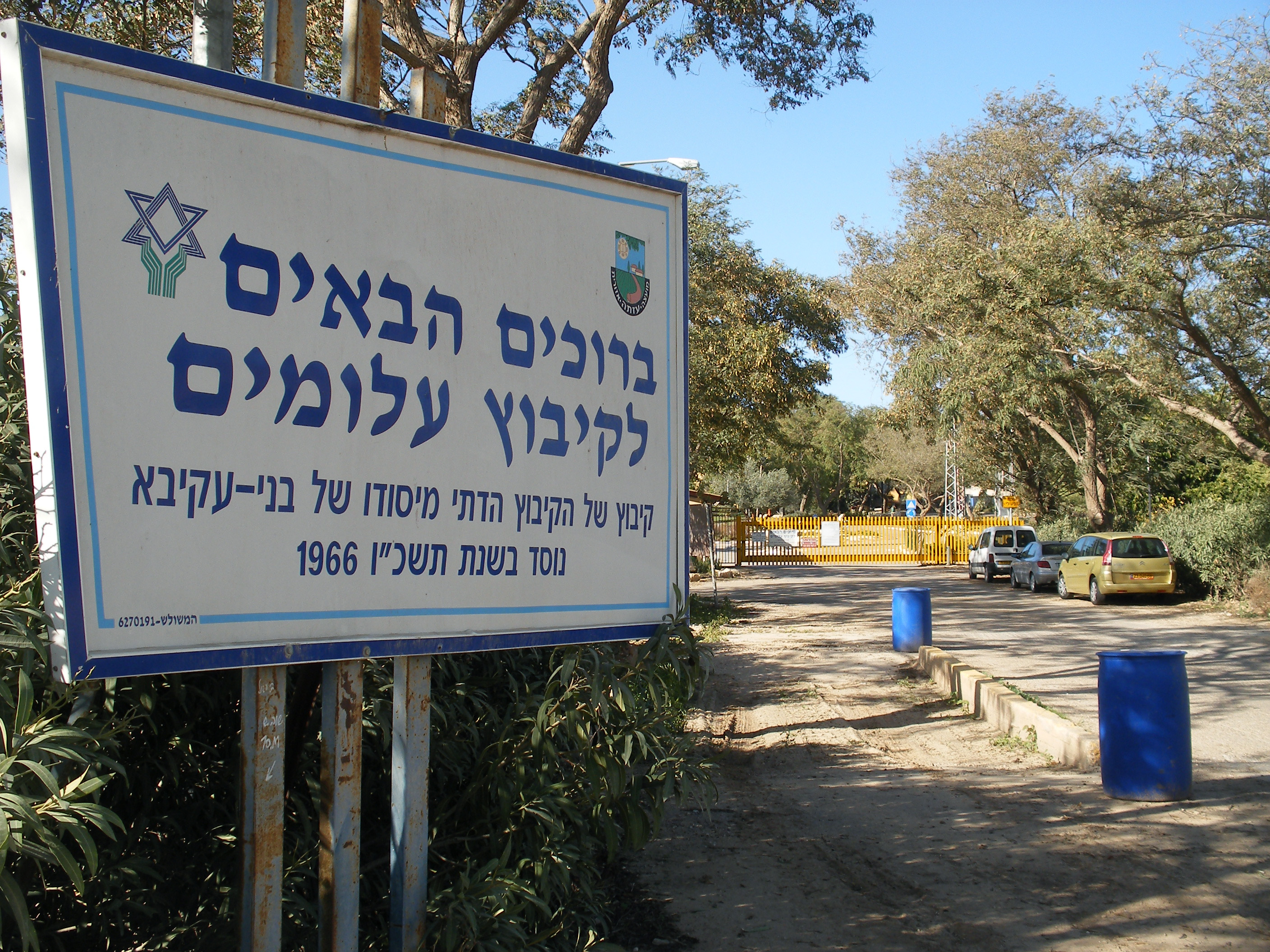 Alumim Kibbutz in the north-western Negev.